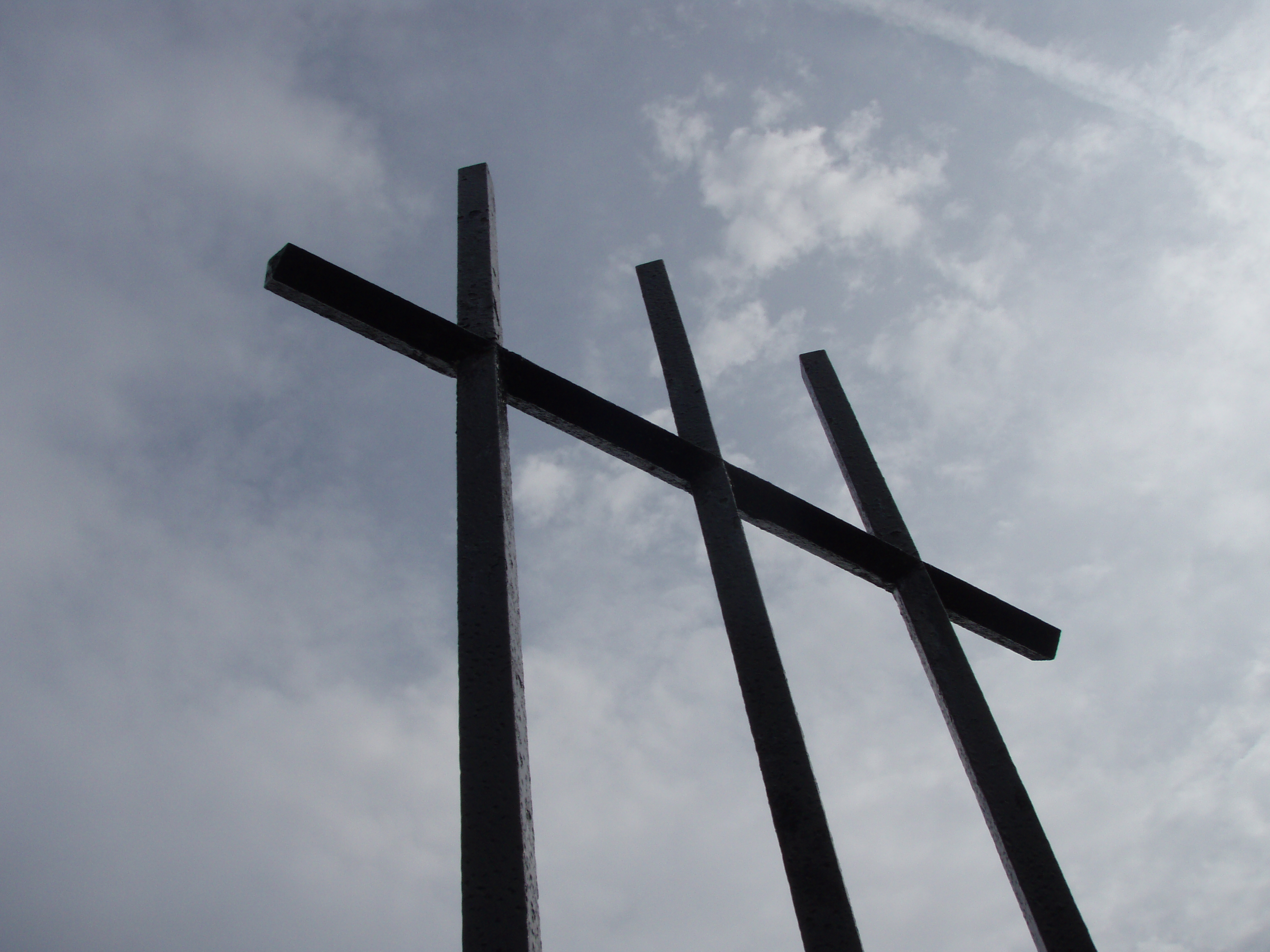 Memorial of death paratroopers on Mělce near Louny